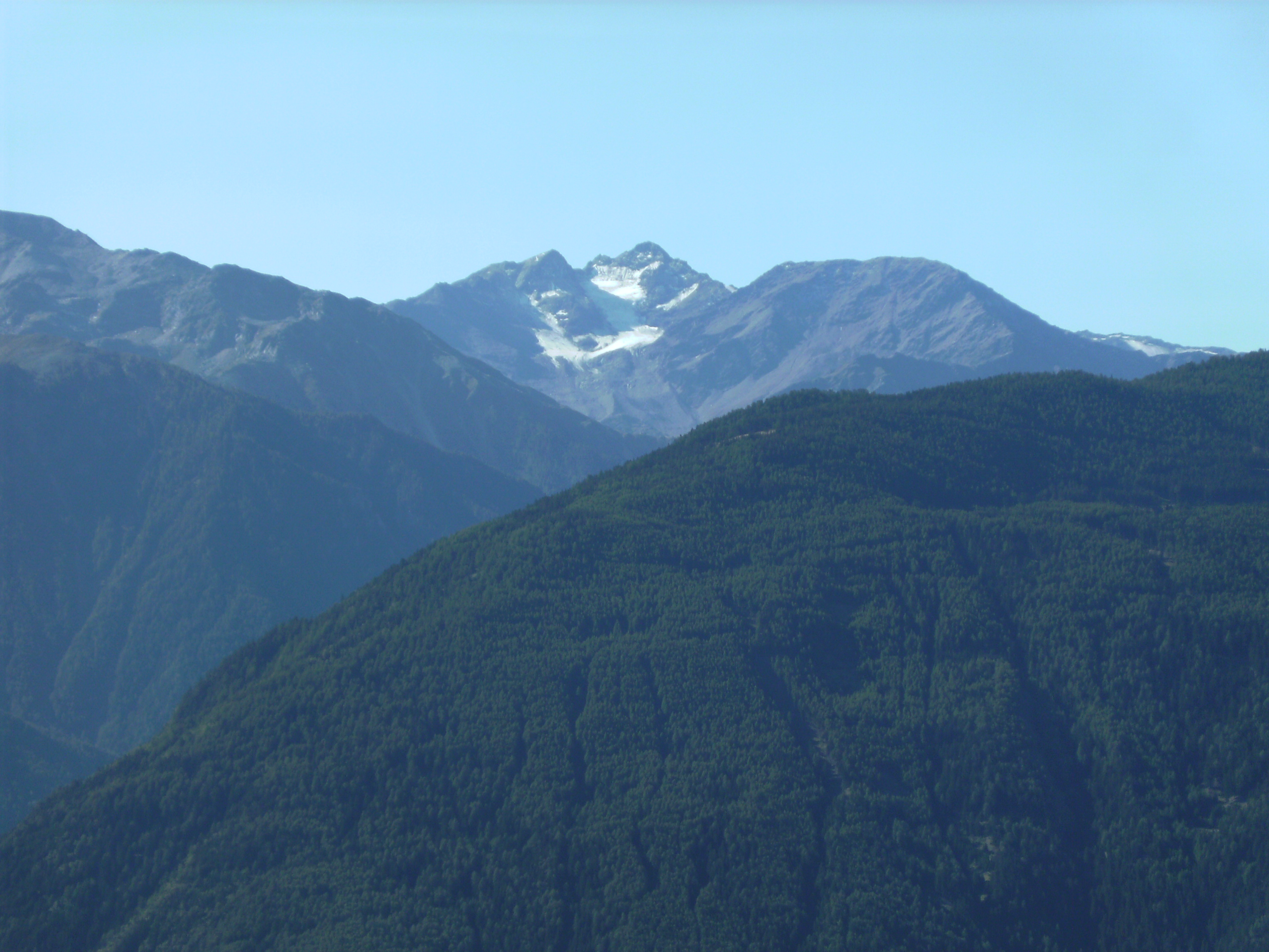 Zufrittspitze 3.439 in the Ortler Alps, Italy. Seen from North.